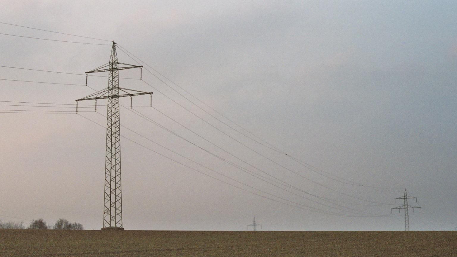 lashed communication, aerial cable spun like a garland on a 110kV-powerline of EnBW near Leonberg in Germany